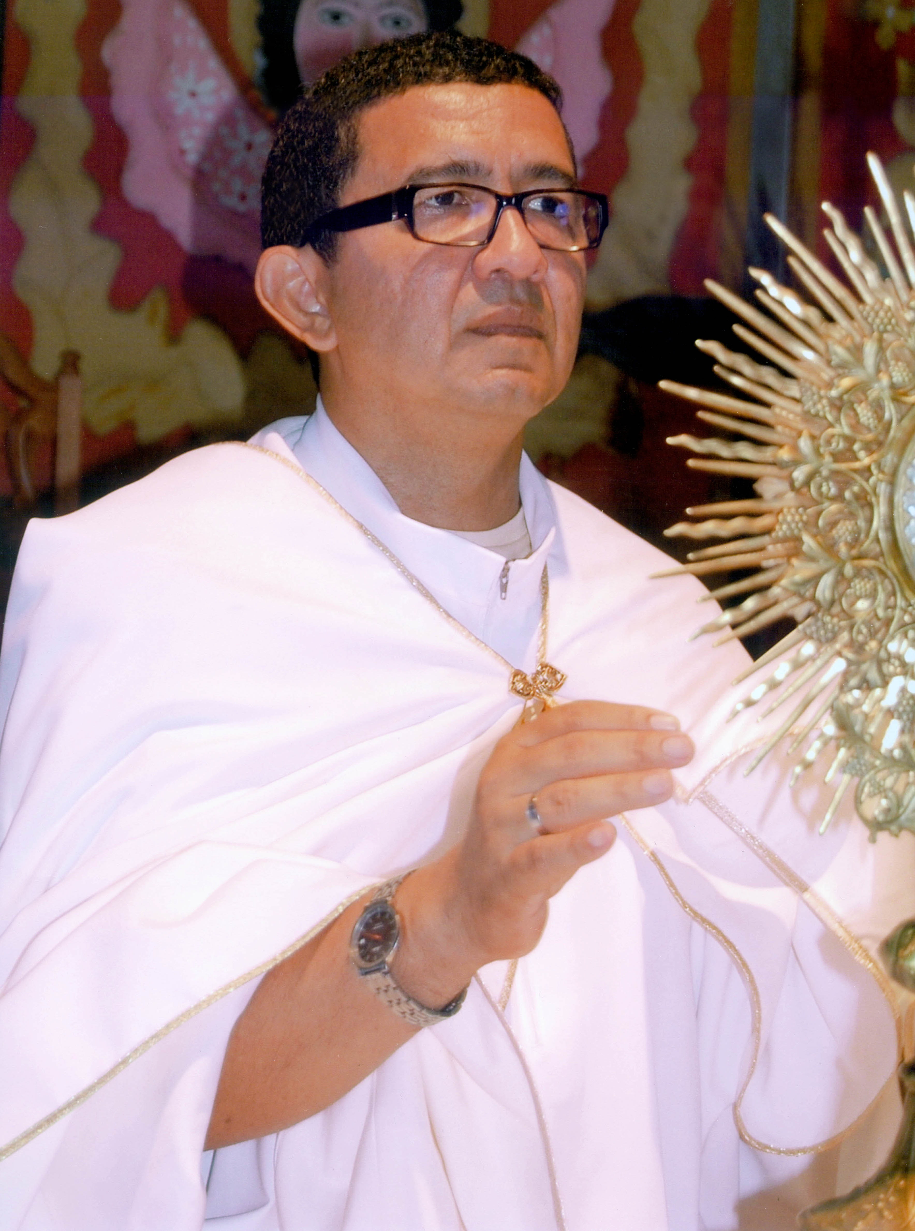 Igreja Nossa senhora de Lourdes